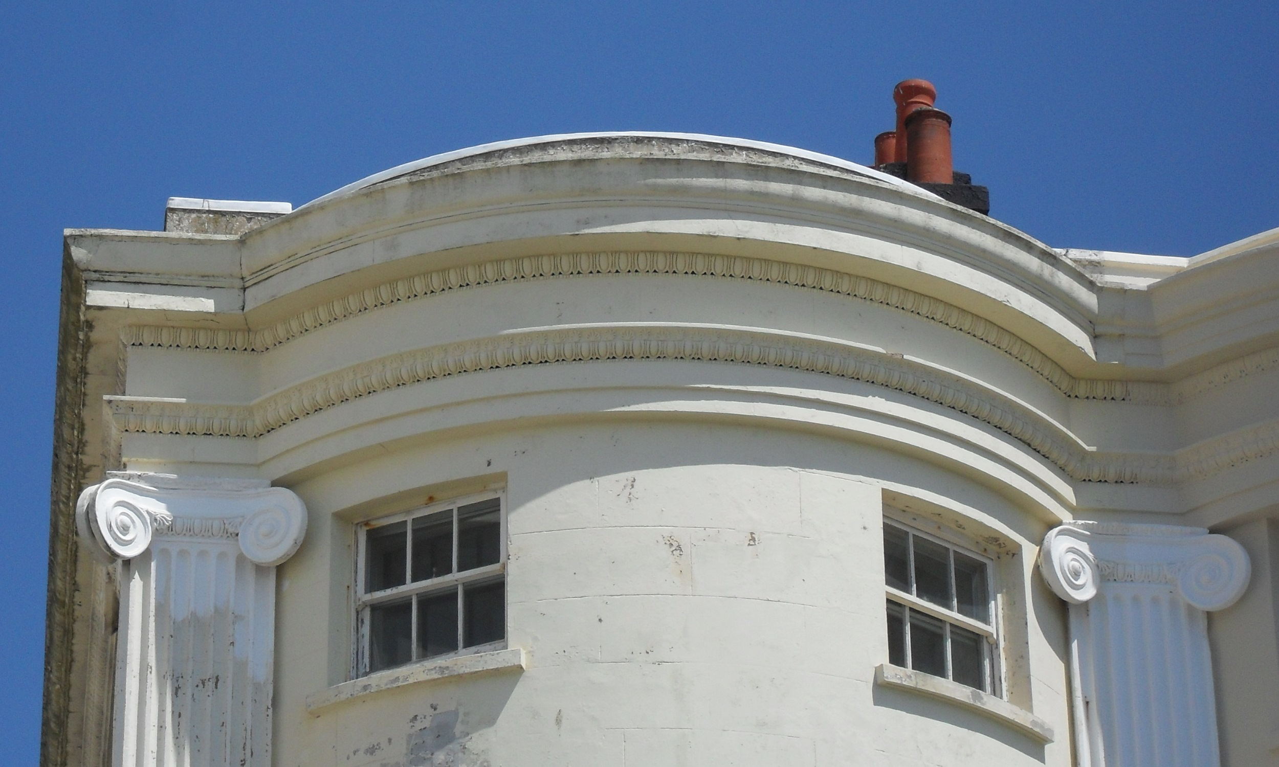 The upper section of 102 Marine Parade, Brighton, City of Brighton and Hove, England. Here are several of the characteristic features of Regency architecture: a bow front, stucco, decorative capitals, fluted pilasters and an ornate parapet.